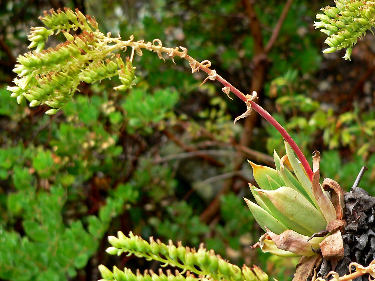 Photo of Dudleya candelabrum at the Regional Parks Botanic Garden